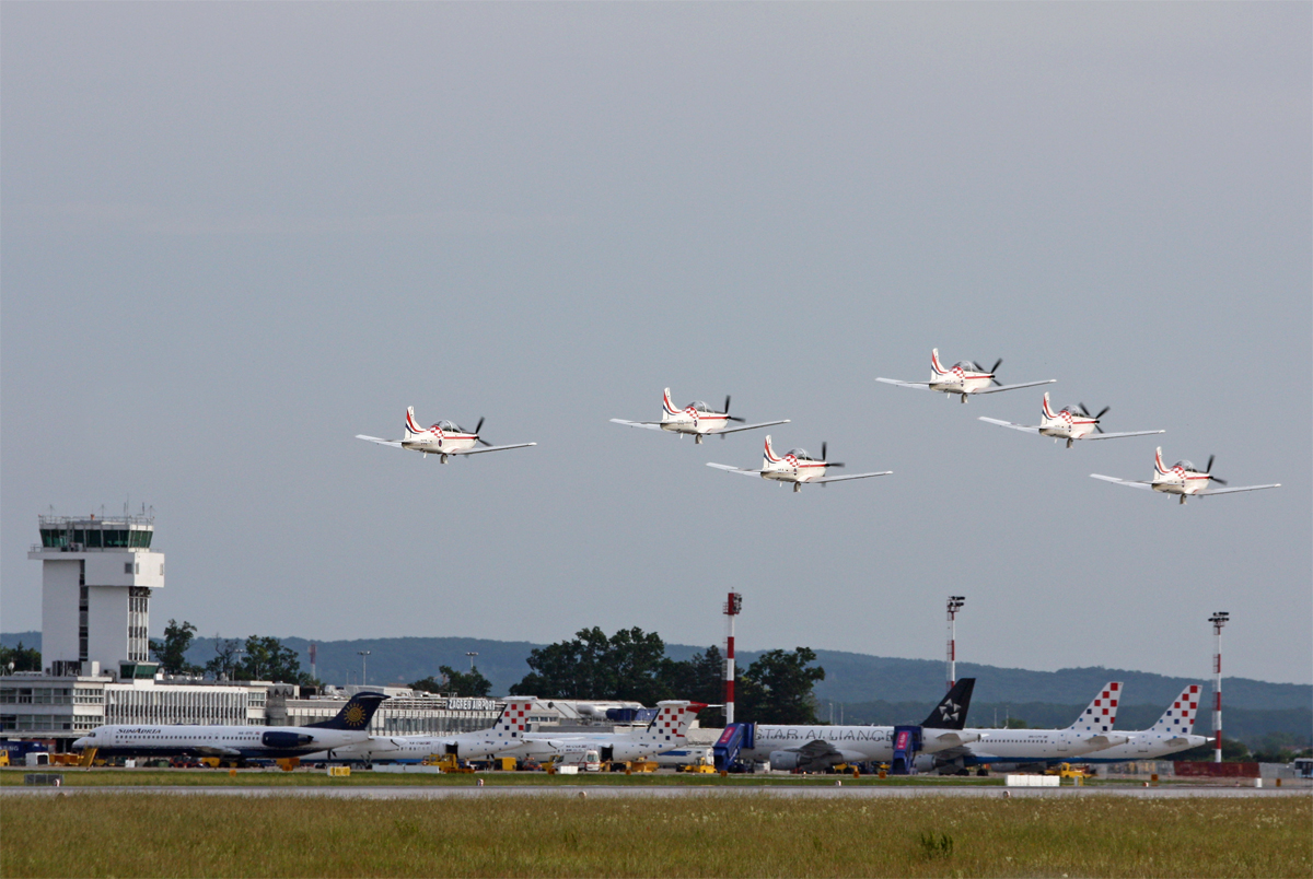 Croatian air force aerobatic display team Wings of Storm